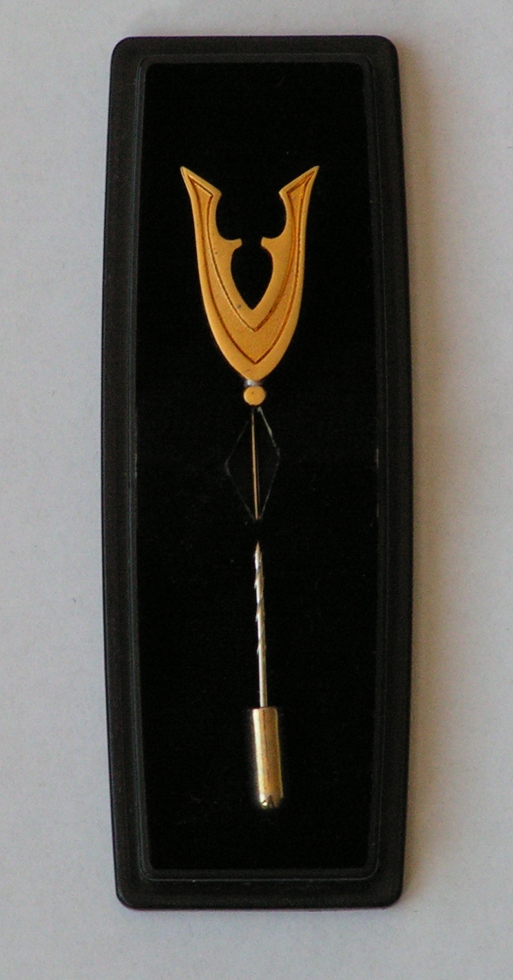 Dutch Veterans insigna